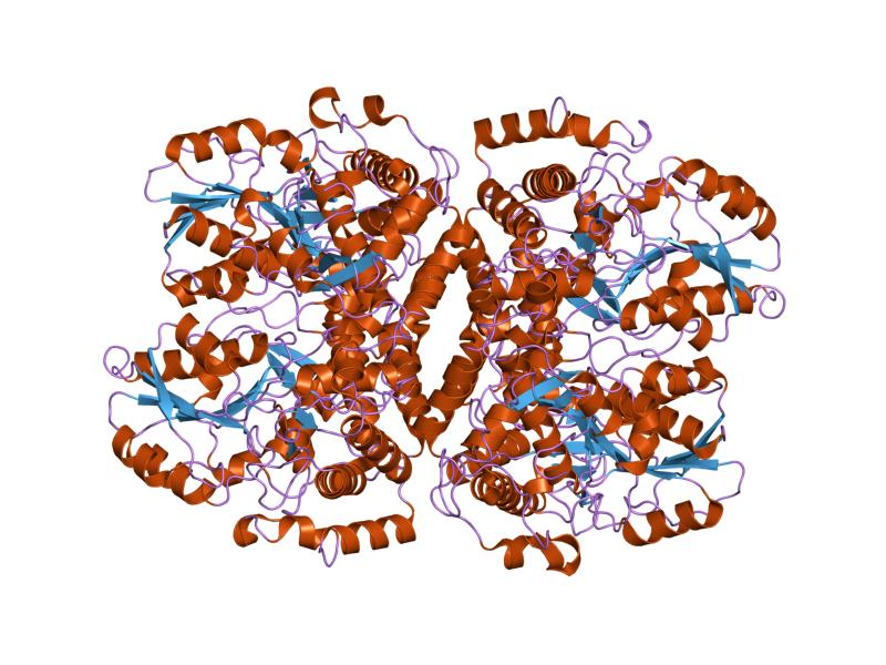 Cartoon representation of the molecular structure of protein registered with 1wyt code.